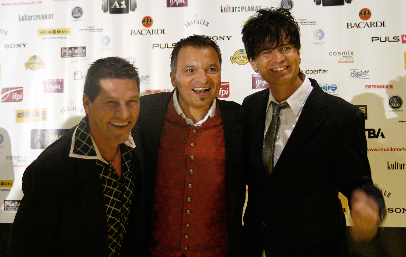 Die Klostertaler at the Amadeus Austrian Music Award 2010 (Wiener Stadthalle, Vienna, Austria)